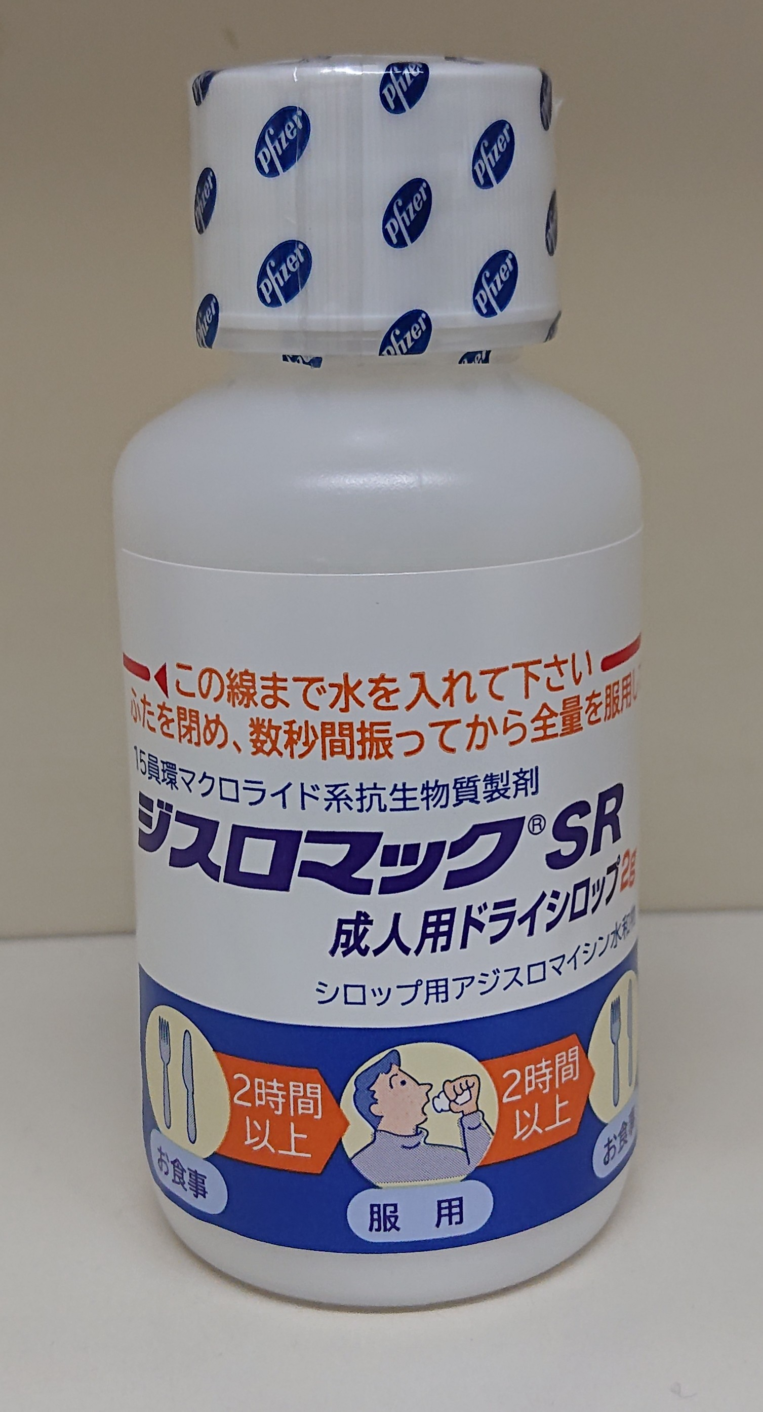 Pfizer azithromycin "Zithromac SR dry syrup for adults 2g"